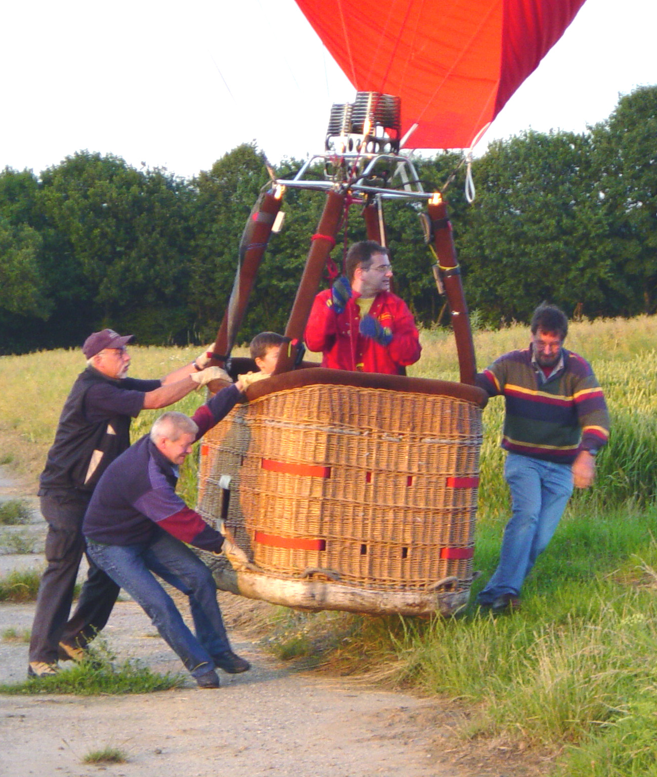 This is a cropped version of the original with some lightness, contrast, and color adjustments